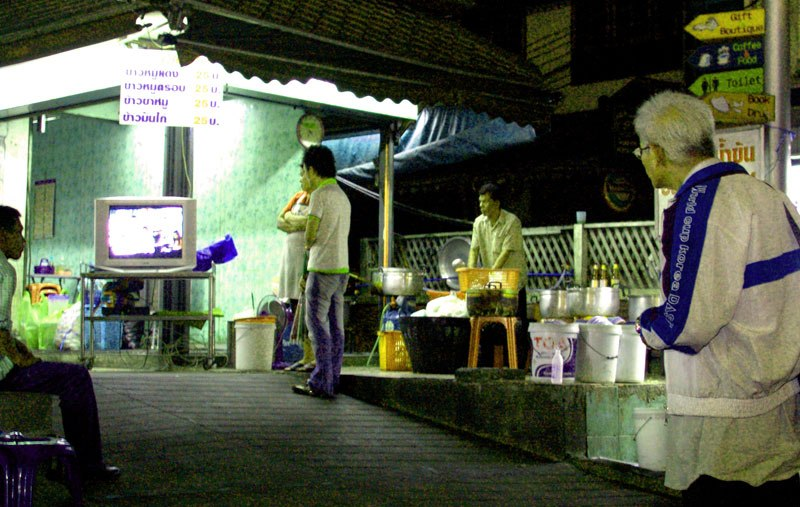 Citizens in Bangkok awake on New Year's day in 2007 in disbelief and shock at the bombings that struck the capital on the New Year's eve celebration the night before. Image provided by Manik Sethisuwan 21:13, 3 February 2007 (UTC) , The Sethisuwan Group (January 2007). Cropped slightly by Ali'i on 14:41, 25 March 2008 (UTC)